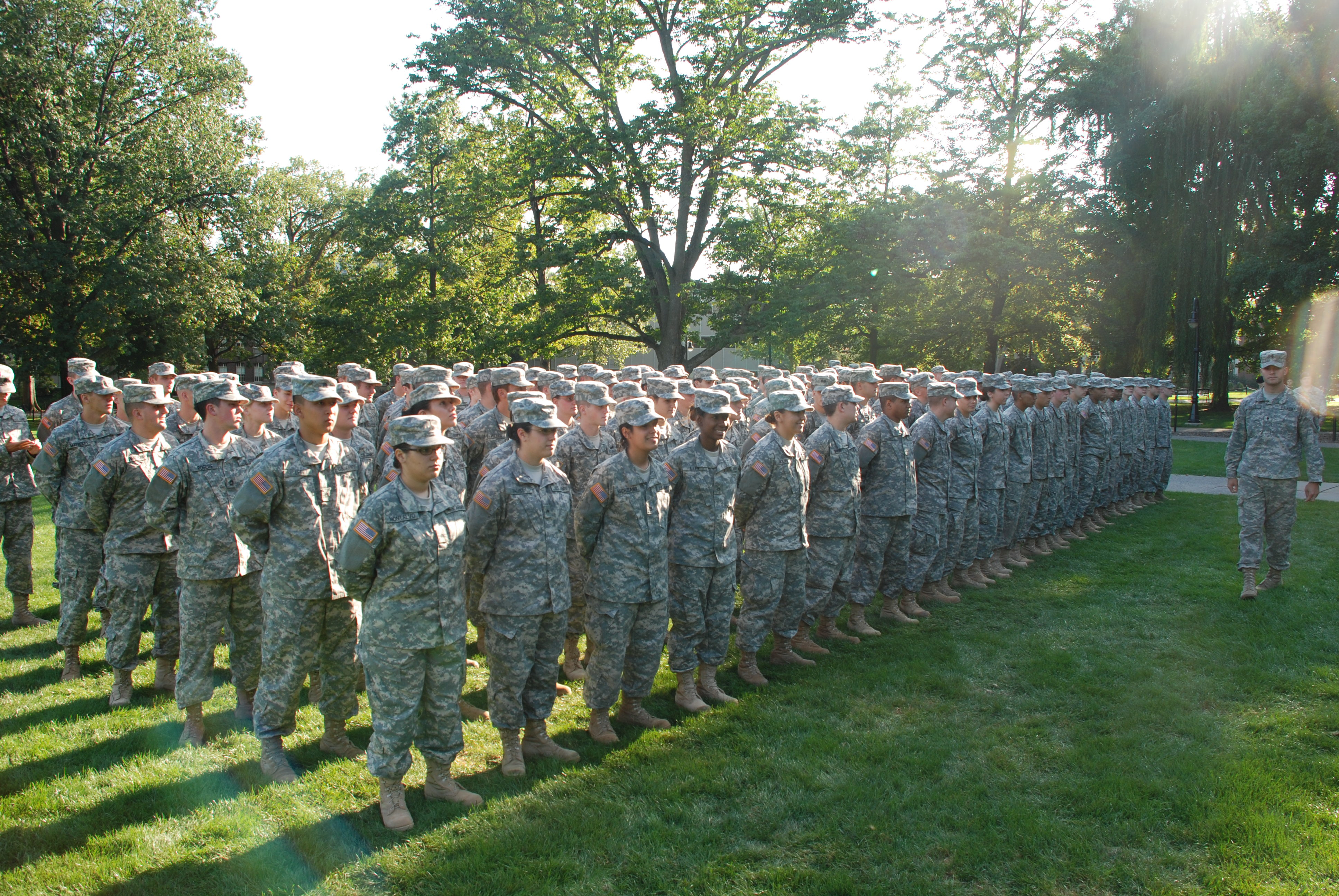 PSU AROTC Cadets in Front of Old Main